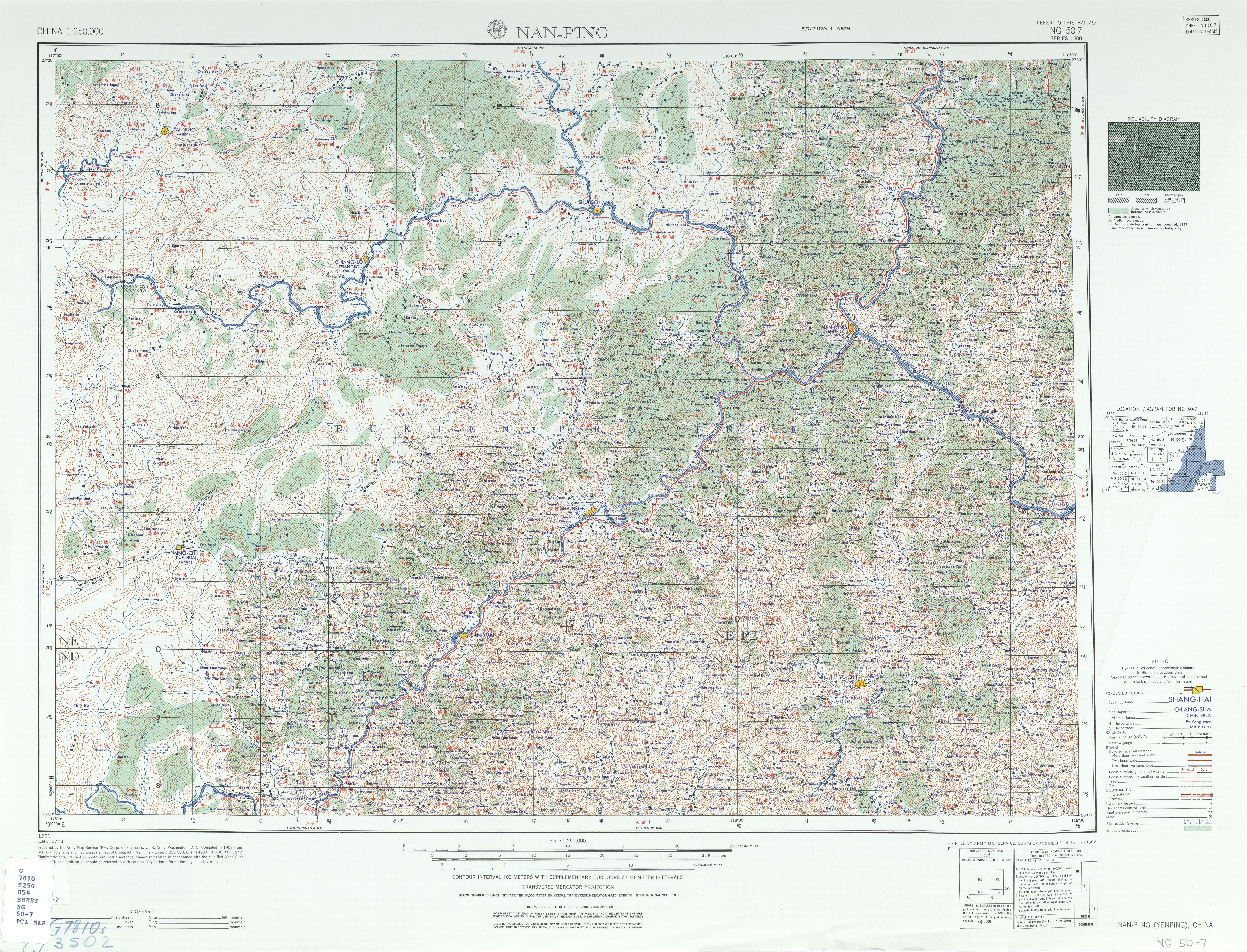 Map of the Nanping (Nan-p'ing, Yenping) area, Fujian